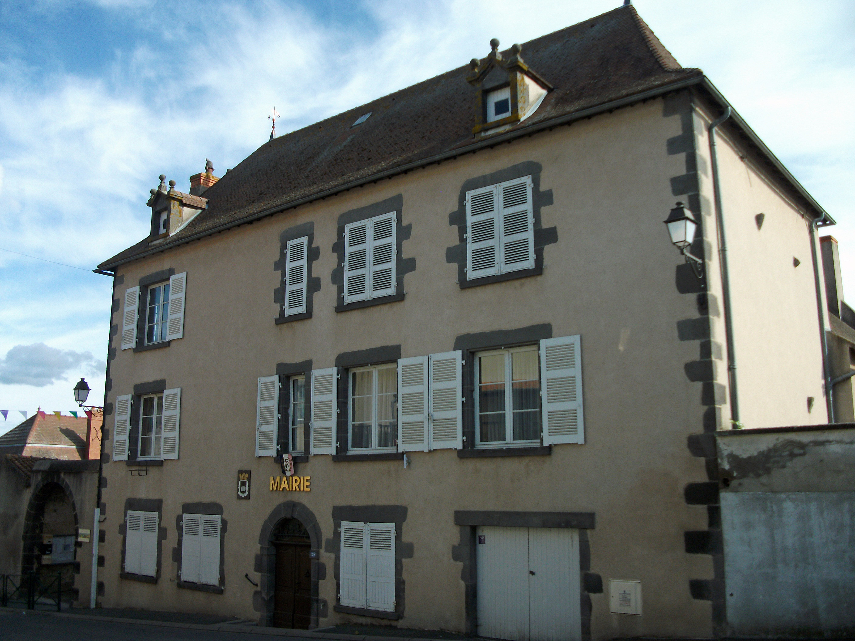 Town hall of Artonne, Puy-de-Dôme, Auvergne-Rhône-Alpes, France [10875]